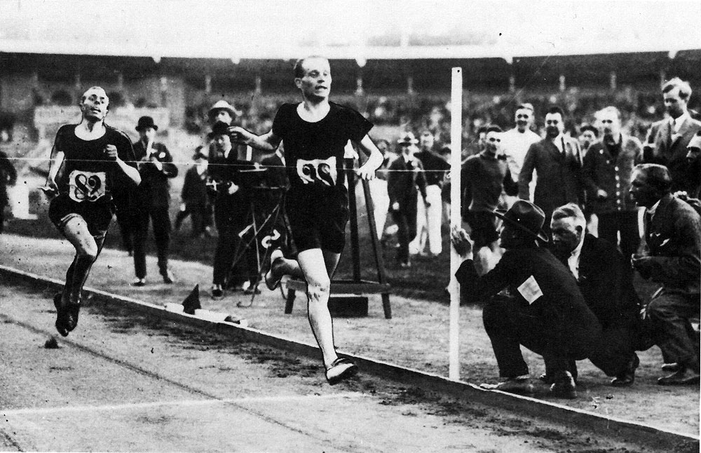 Paavo Nurmi beats Edvin Wide to the win in Stockholm in July 1926.